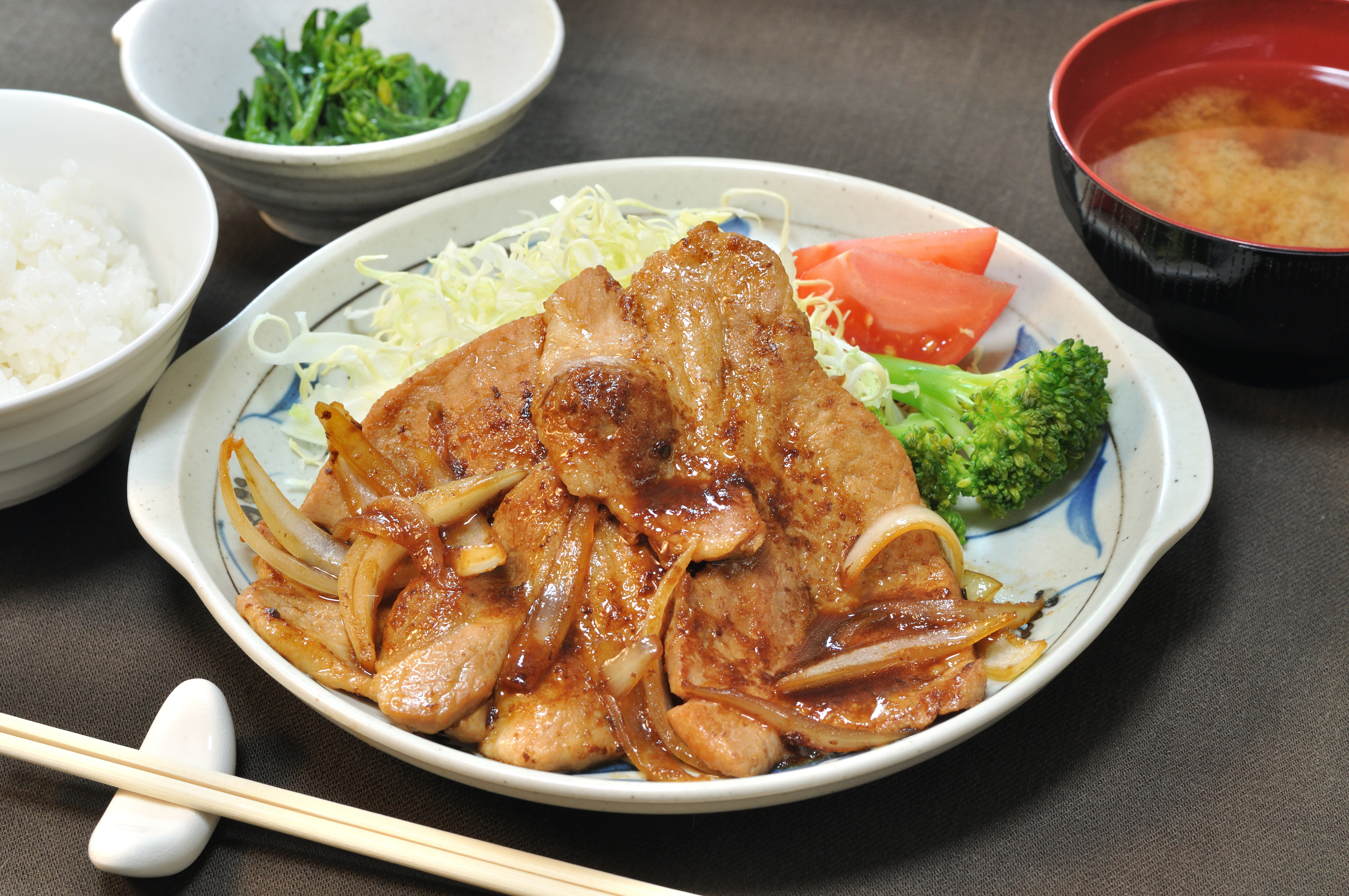 Pork Shogayaki.